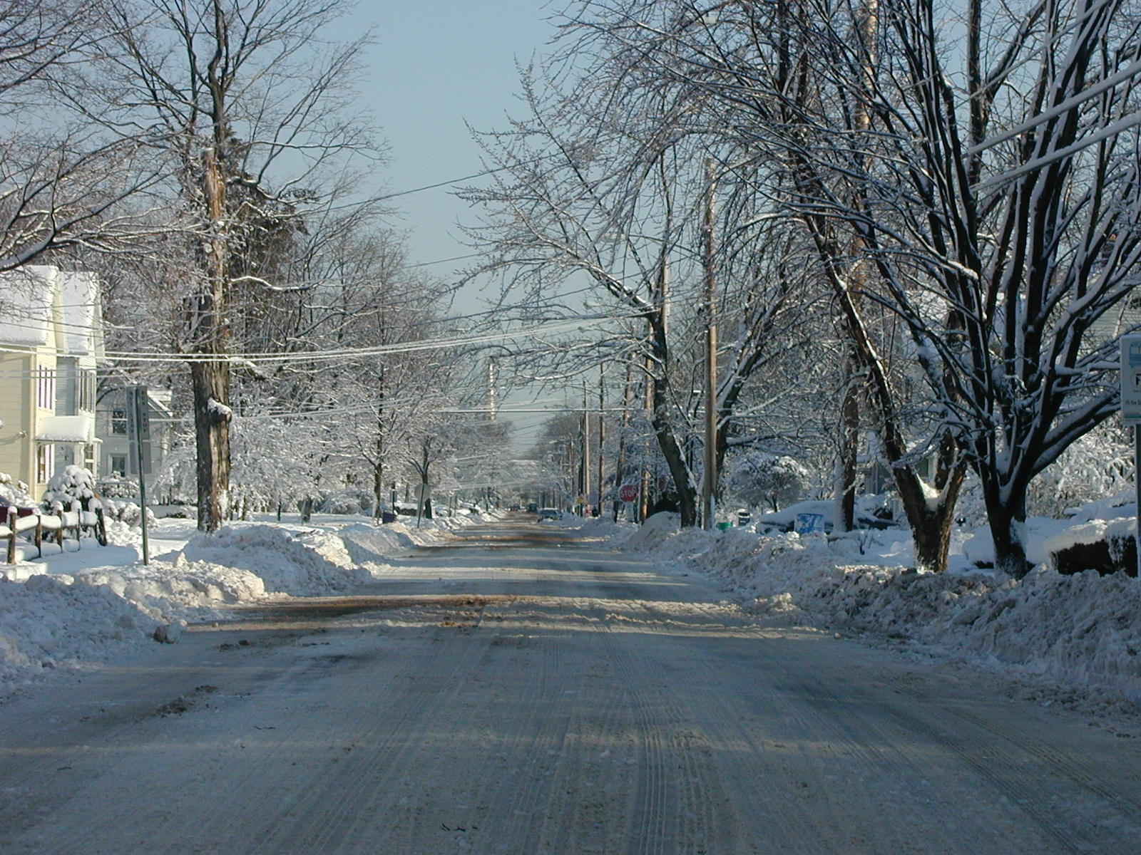 East Haven, Connecticut. Picture taken by me in 2001